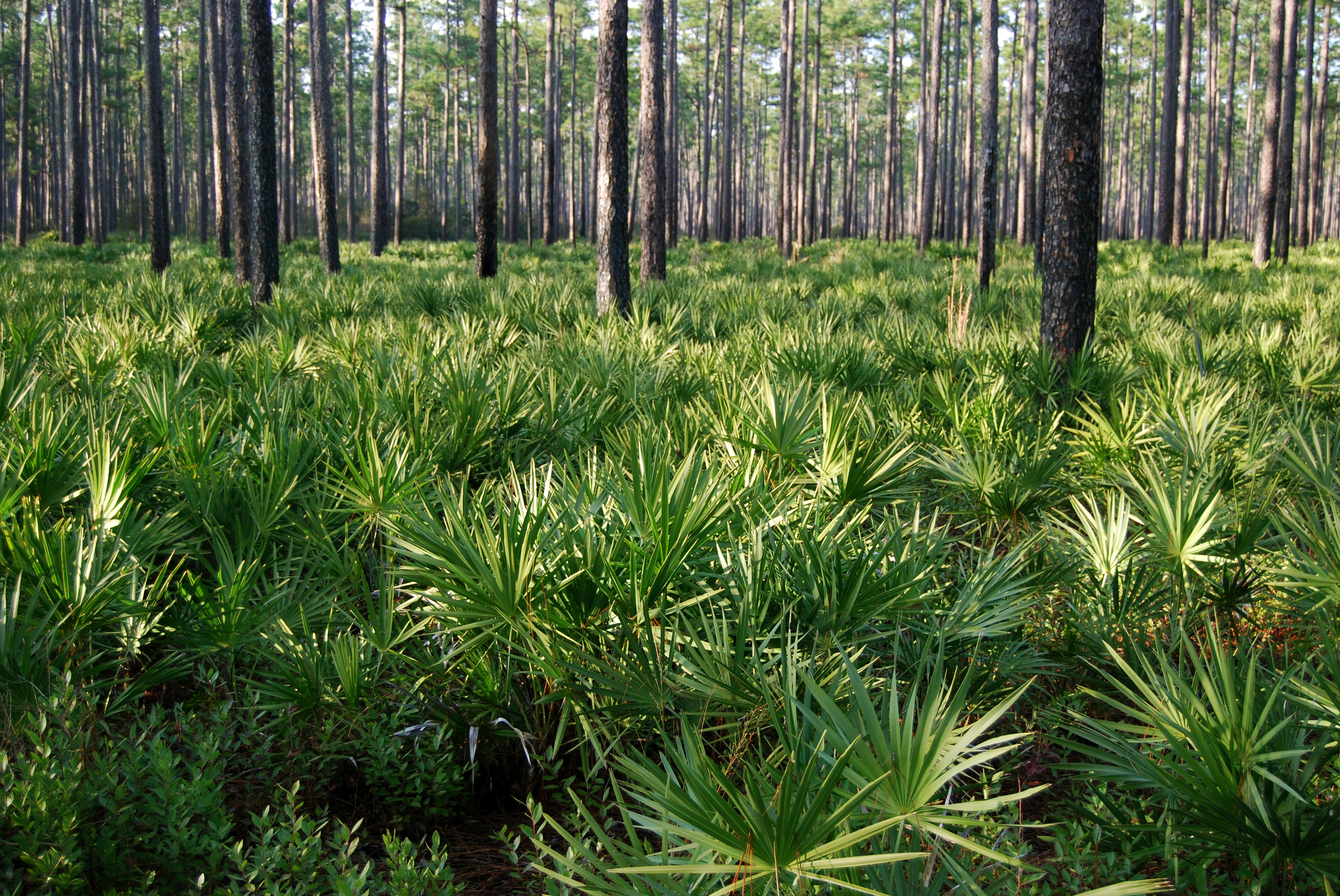 Pinus palustris forest with understory dominated by Serenoa repens. Osceola National Forest, Florida.